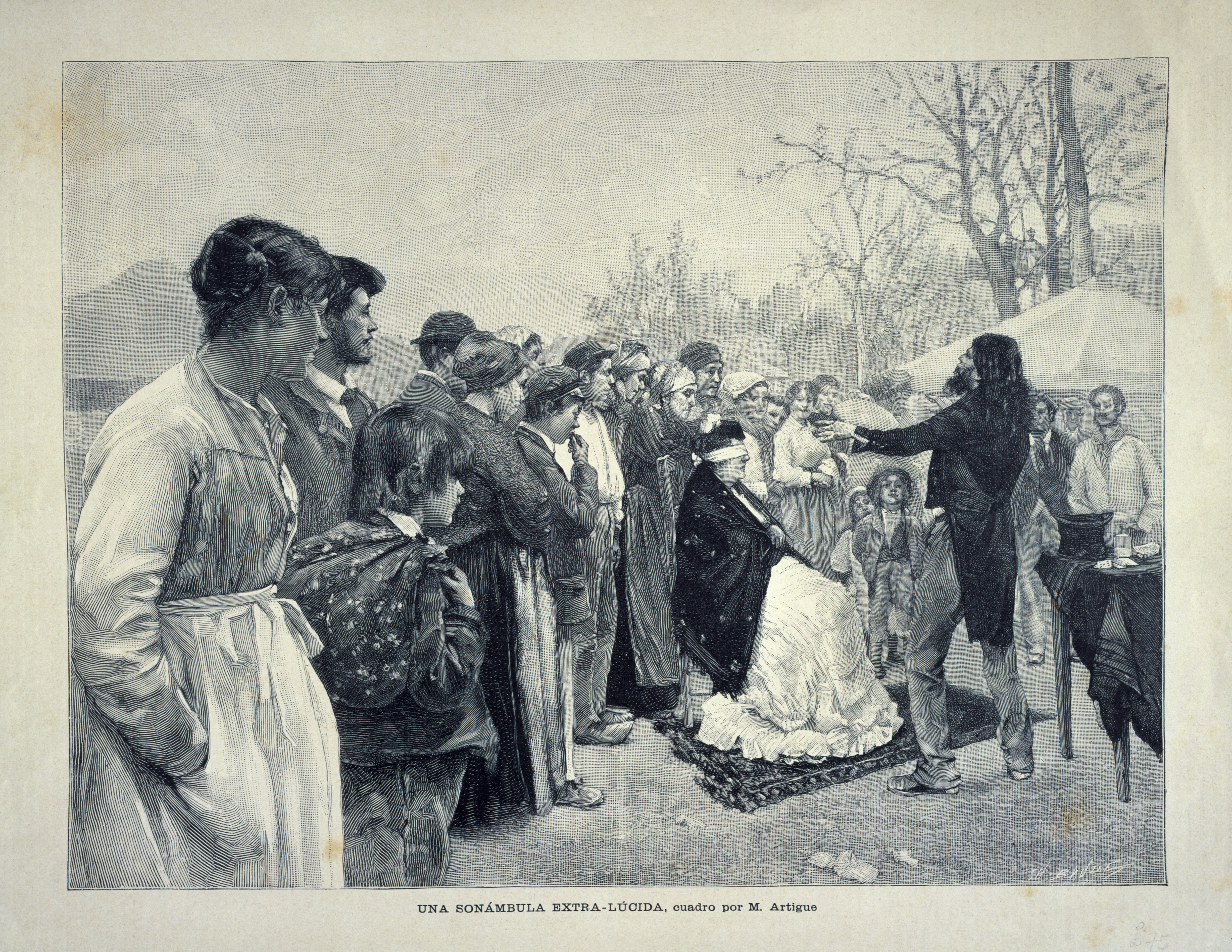 A pair of mind-readers performing among a group of villagers. Wood engraving after Artigue. Iconographic Collections Keywords: Albert-Émile Artigue; Bernard-Joseph Artigue